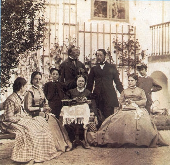 Family group at Rolighed Mansion, Østerbro, near Copenhagen with Dorothea Melchior (centre), Hans Christian Andersen and Moritz G. Melchior. The photograph was taken by amateur photographer, Israel B. Melchior, Moritz' brother.